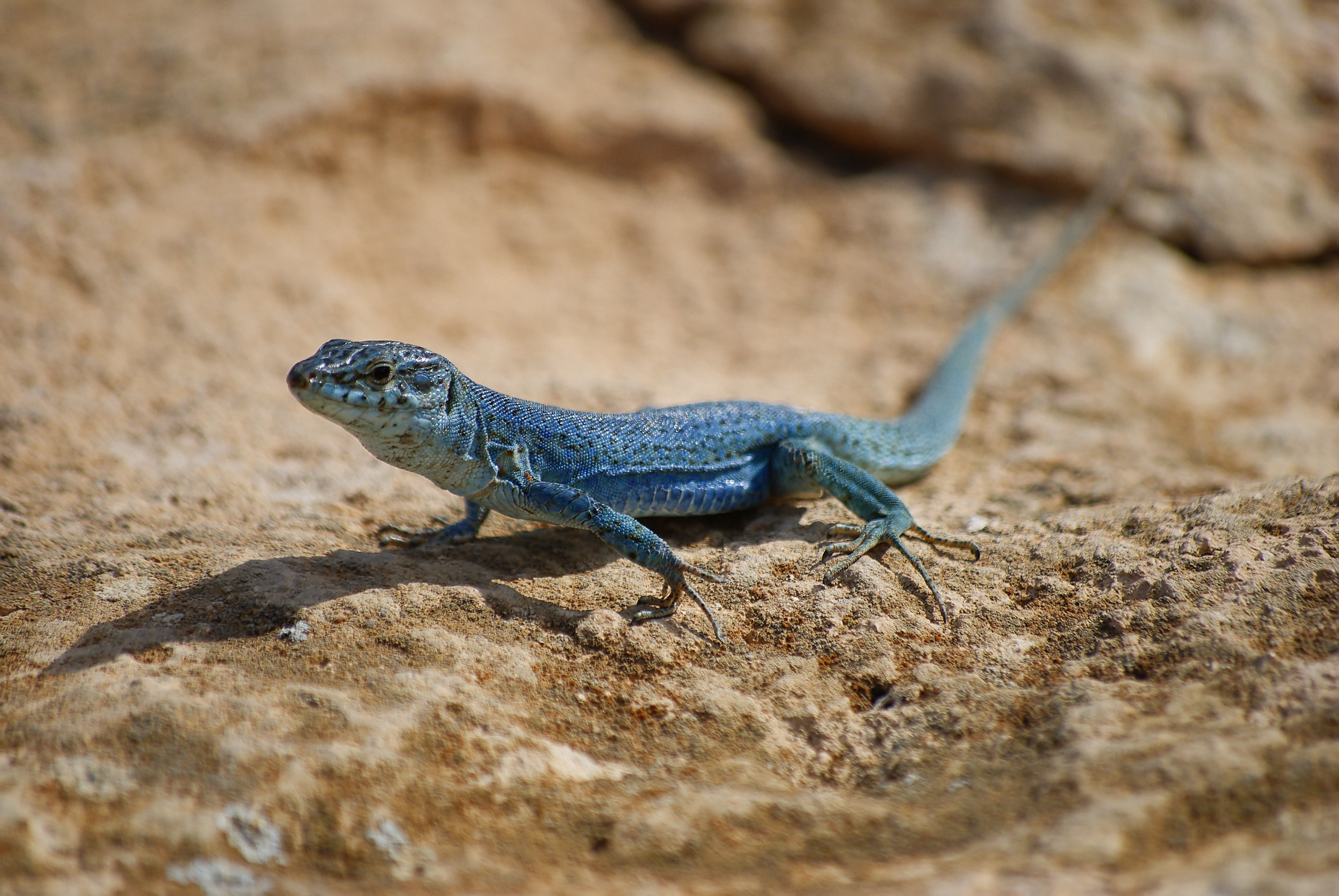 Formentera wall lizard (Podarcis pityusensis)